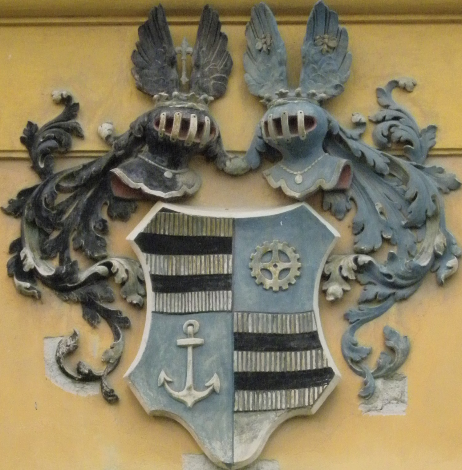 Coat of arms of Schöller family. Facade of St. Michael's church, Levice.